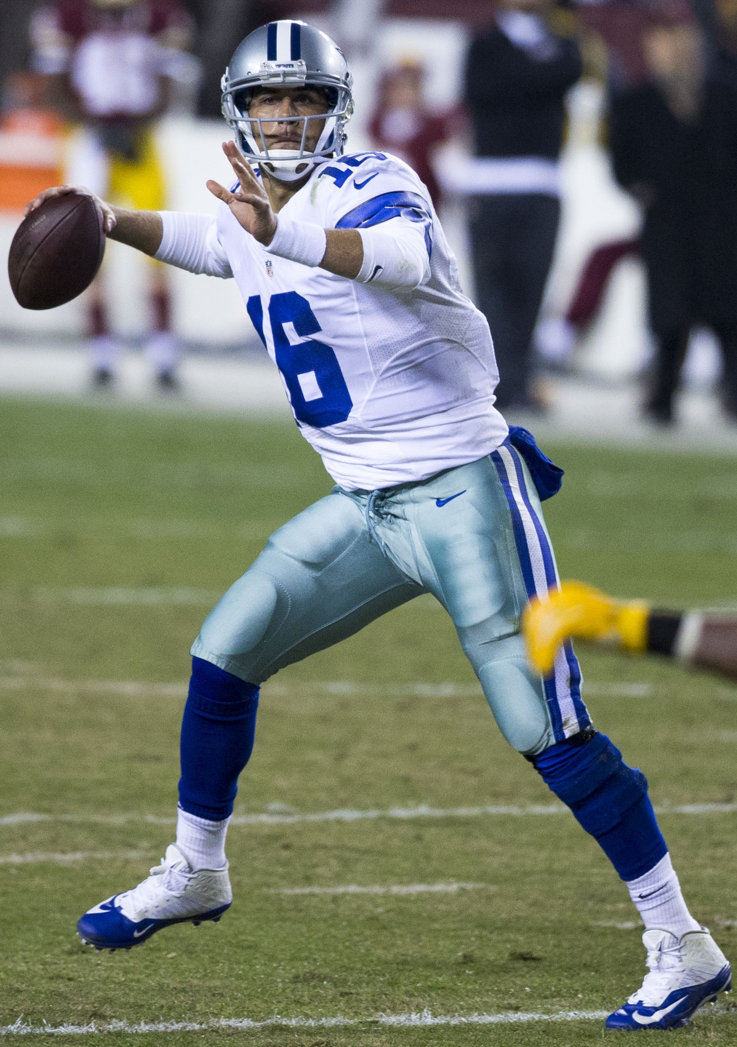 Cowboys at Redskins 12/7/15